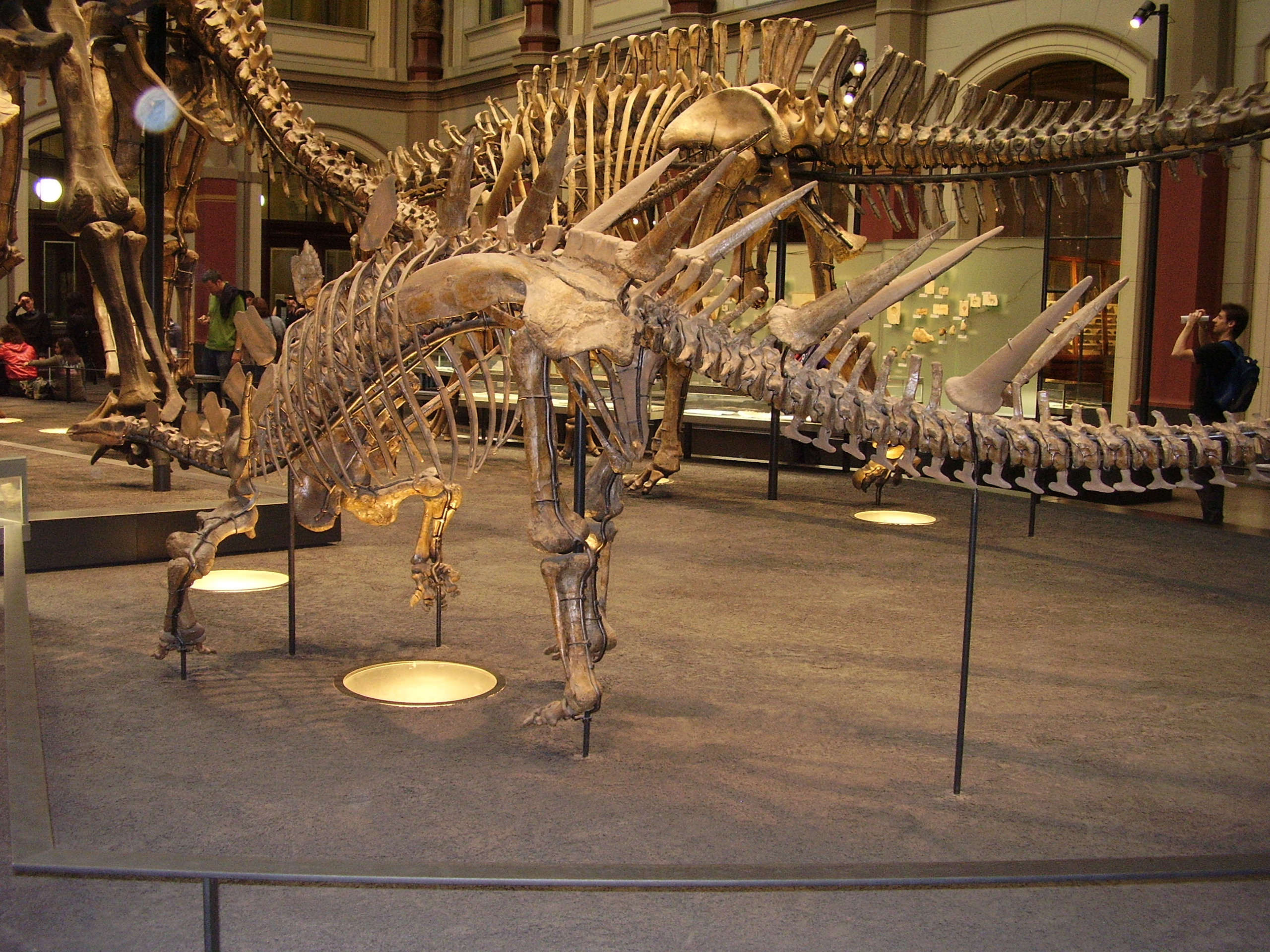 Skeleton of african stegosaurid Kentrosaurus aethiopicus, Berlin Natural history museum (2010).